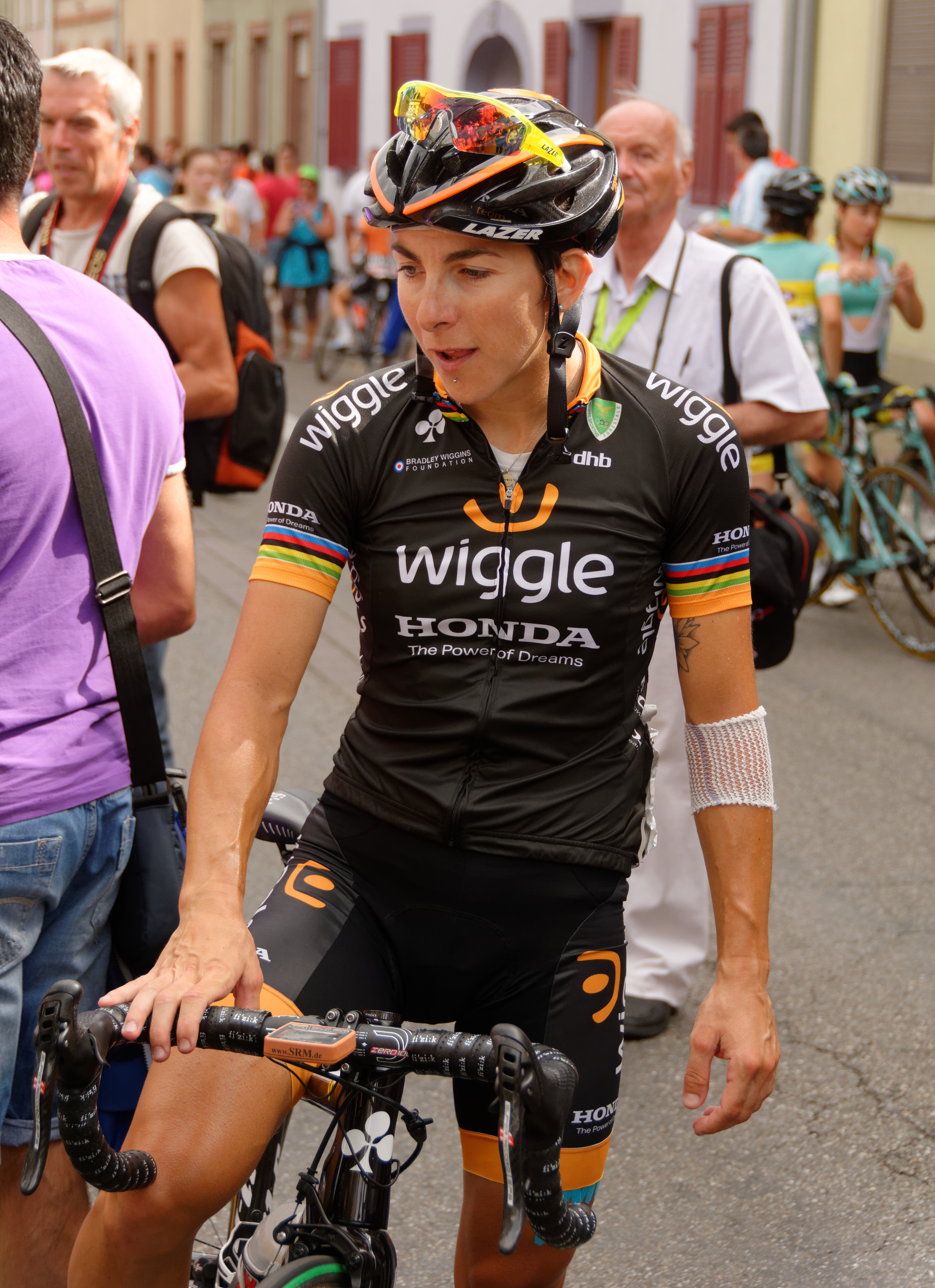 Personality rights warningAlthough this work is freely licensed or in the public domain, the person(s) shown may have rights that legally restrict certain re-uses unless those depicted consent to such uses. In these cases, a model release or other evidence of consent could protect you from infringement claims.